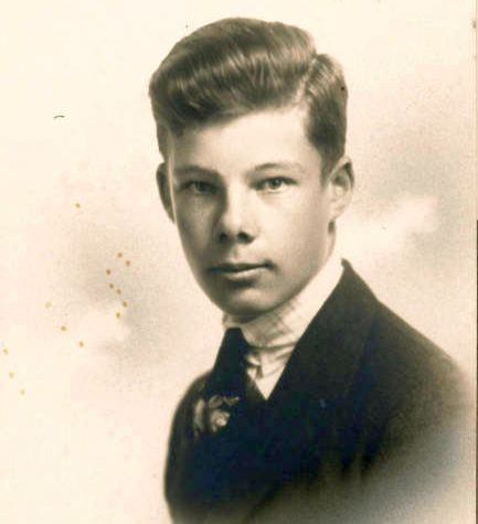 Portrait of Waldo Emerson Bailey, Jackson, Mississippi